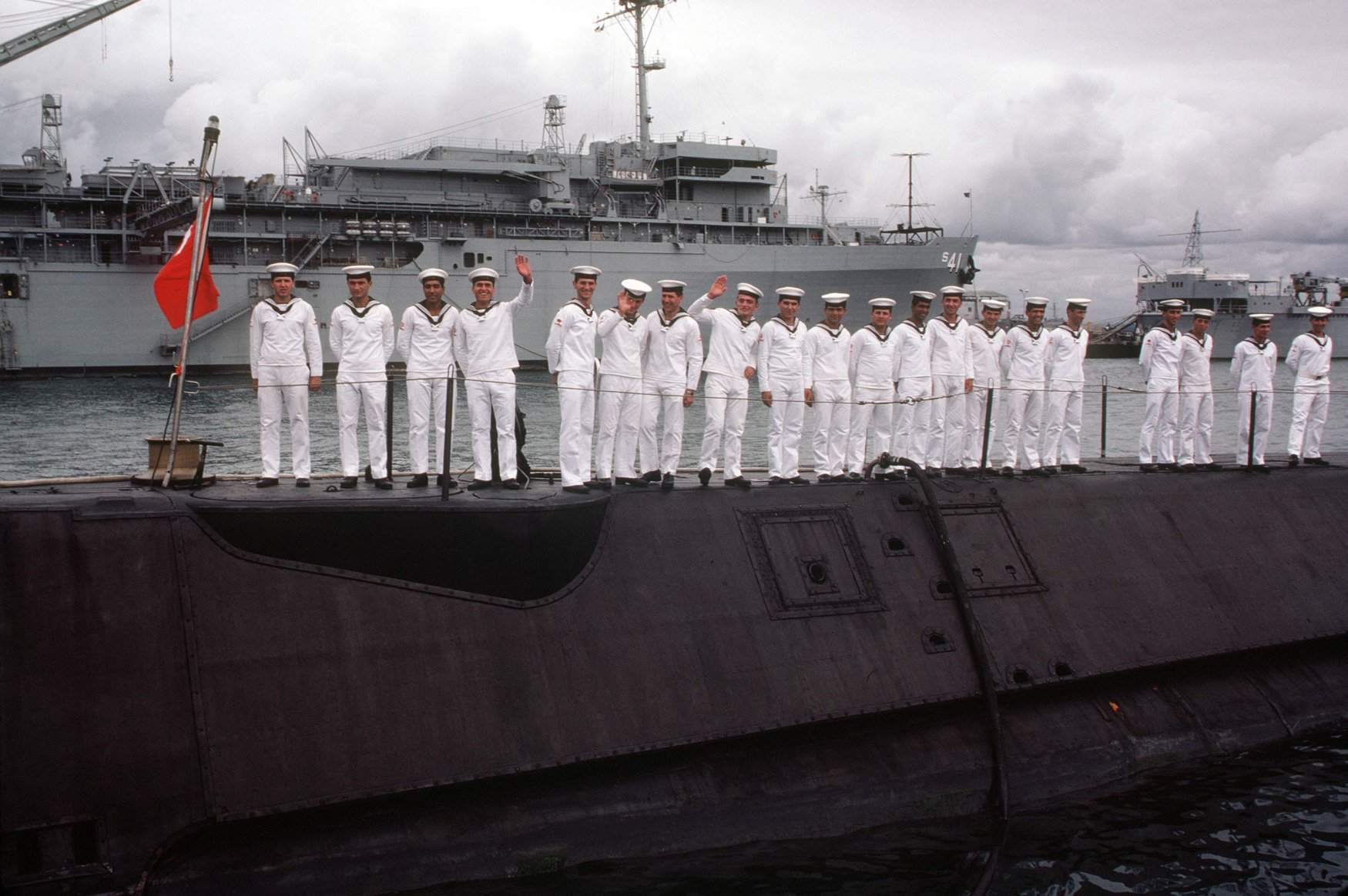 Turkish sailors on the rail aboard TCG Hizirreis (S-342) at the conclusion of the transfer ceremony.